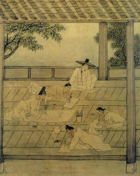 시인휘호 (Si-in-hwi-ho). Depiction of seonbi writing, by the 18th-century Korean painter Damchul Kang Hui-eon (강희언) (1738-1784). Retrieved from [1]